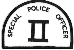 The patch of an SLEO II. The Roman numeral in the center specifies the class of SLEO the officer possesses.